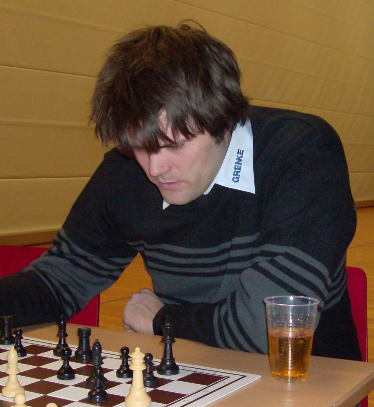 Peter Heine Nielsen, chess grandmaster from Denmark